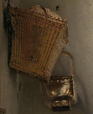 Detail of bread bin and bucket